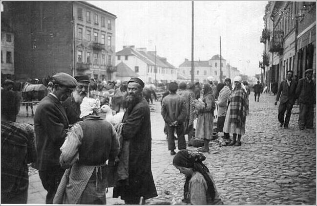 Jewish street in newly established ghetto in Radom in occupied Poland. Circa 1940.